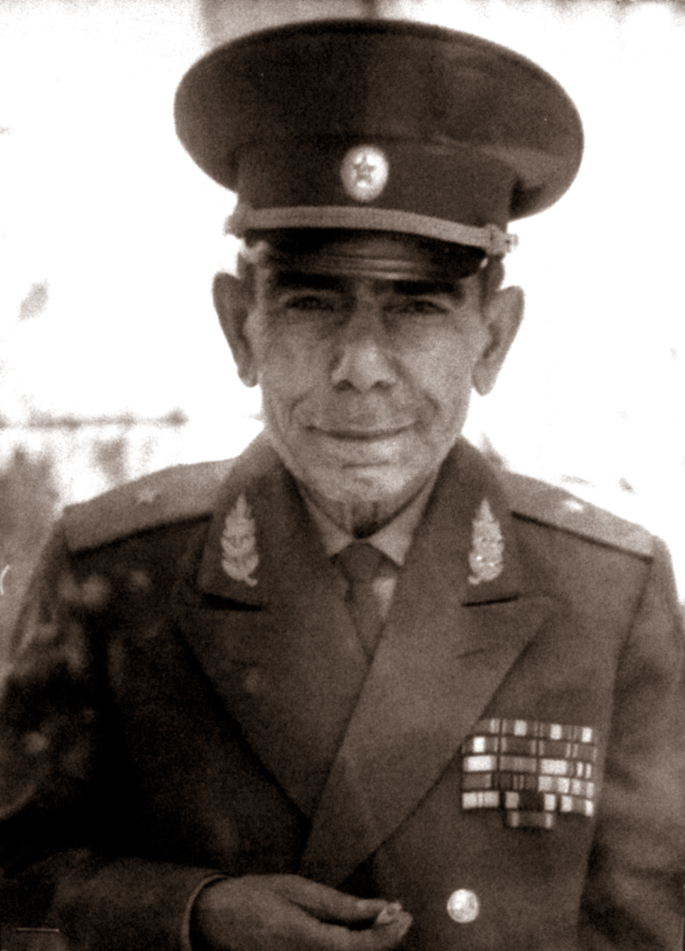 General Major Nver Safarian